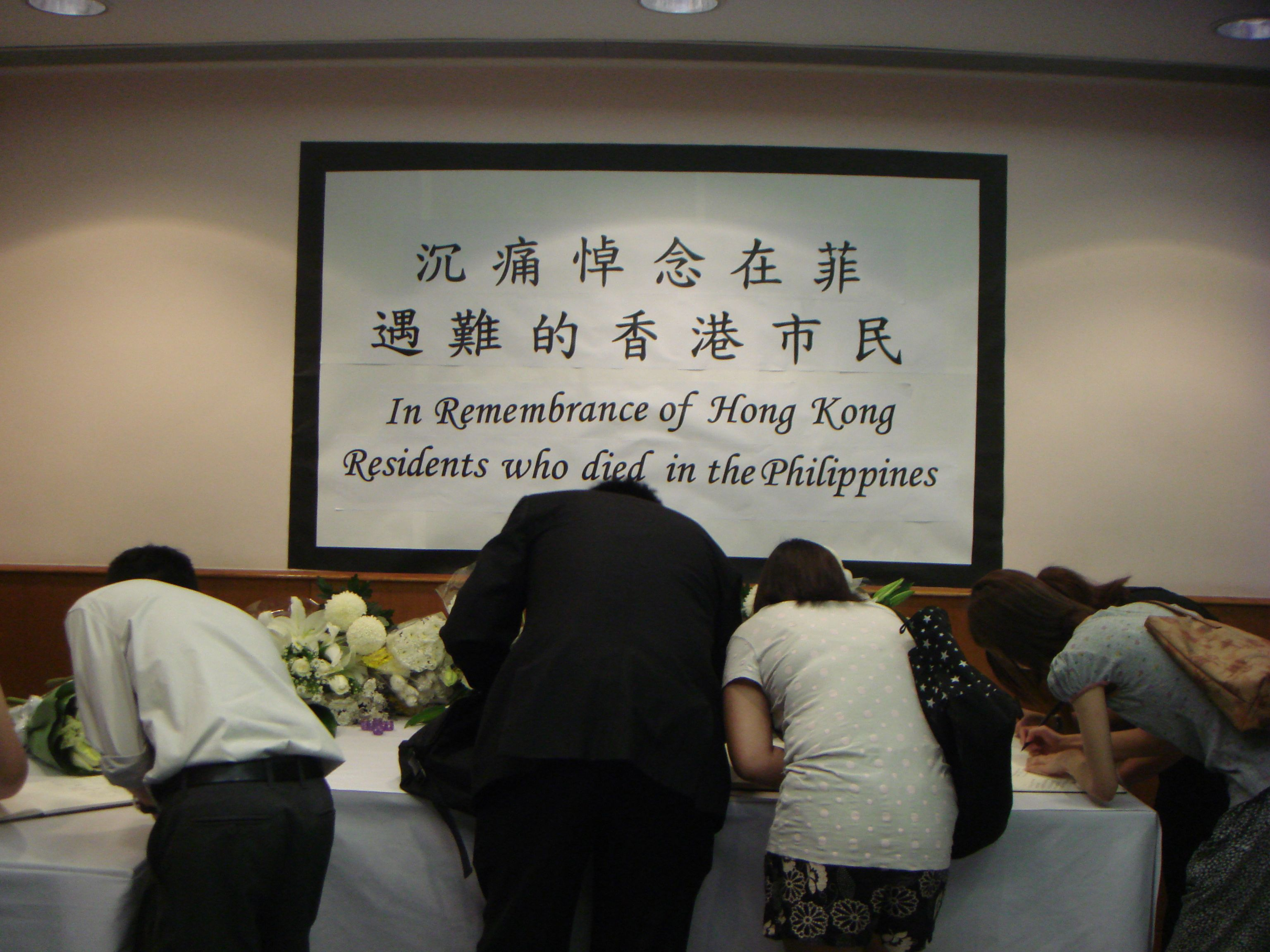 Condolence desk of the decedents in Manila Hostage Crisis 2010 (Mong Kok Community Hall)